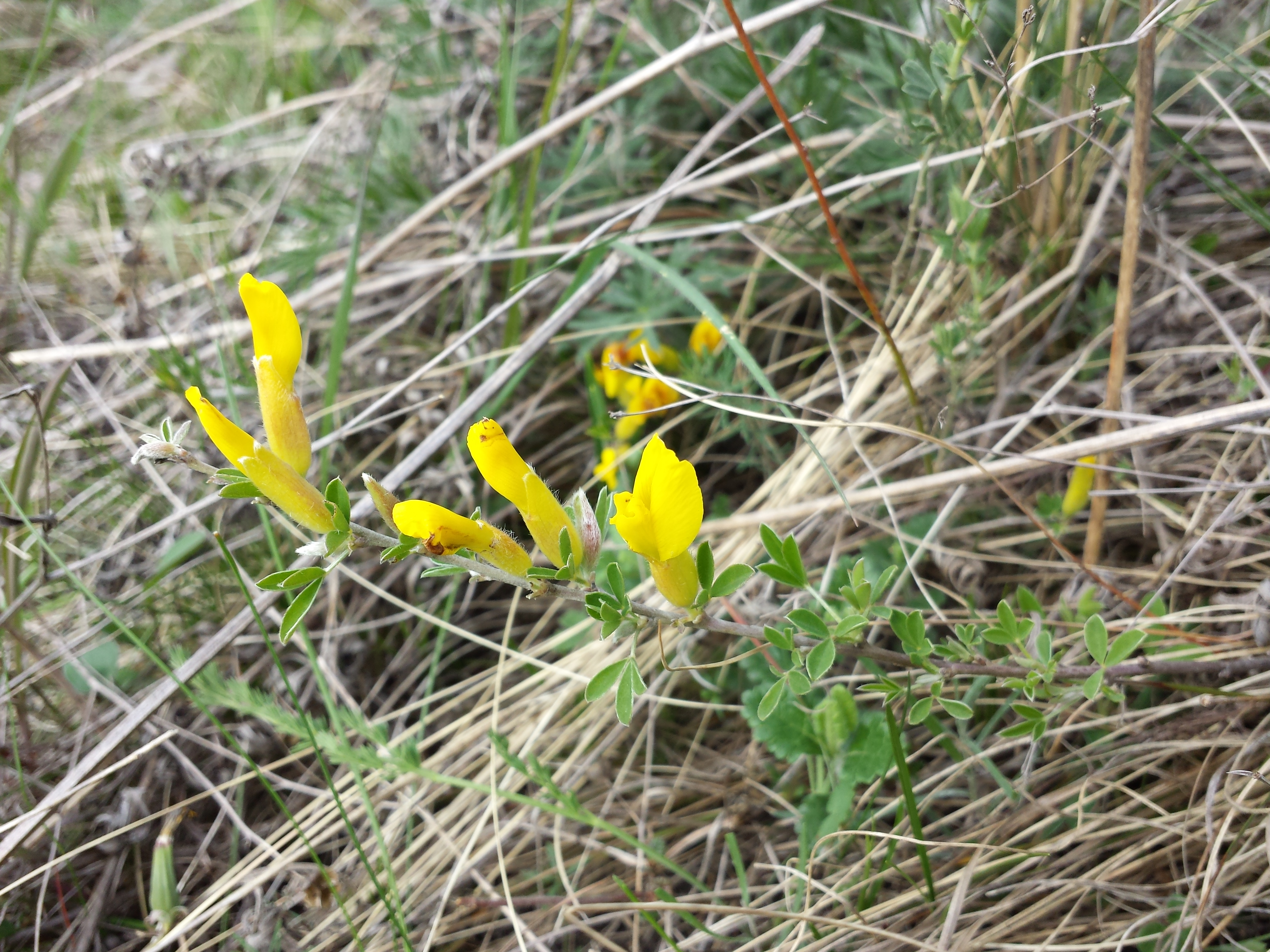 Habitus Taxon: Chamaecytisus ratisbonensis (sensu Fischer et al. EfÖLS 2008 ISBN 978-3-85474-187-9) Location: nature reserve Mühlberg, district Hollabrunn, Lower Austria - ca. 260 m a.s.l. Habitat: dry grassland over Loess This media shows the nature reserve in Lower Austria with the ID 9.